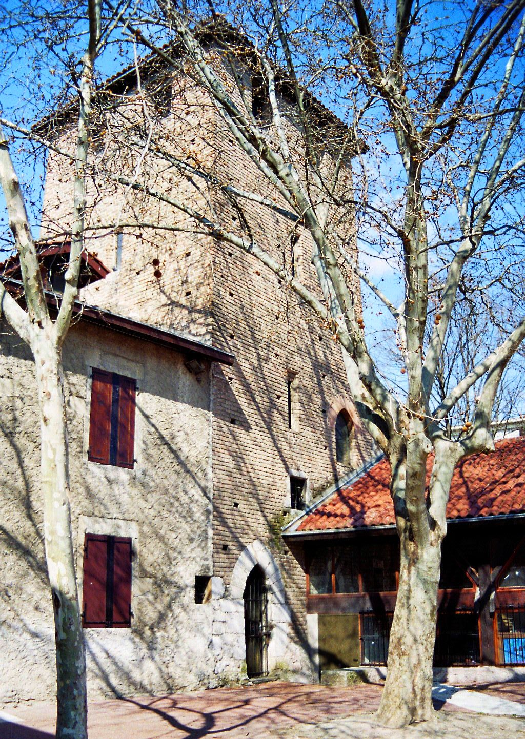 Tour Prémol in Grenoble (Village Olympique)